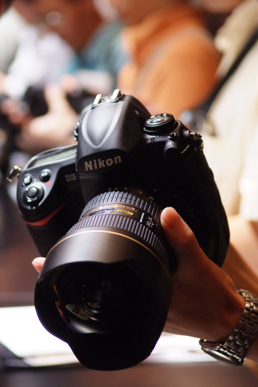 Nikon D3 pre-production model on display in JapanBrand-new